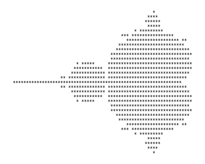 Command-line depiction of the Mandelbrot set, just like the picture Brooks and Matelski included in their article of 1978 on Kleinian groups.